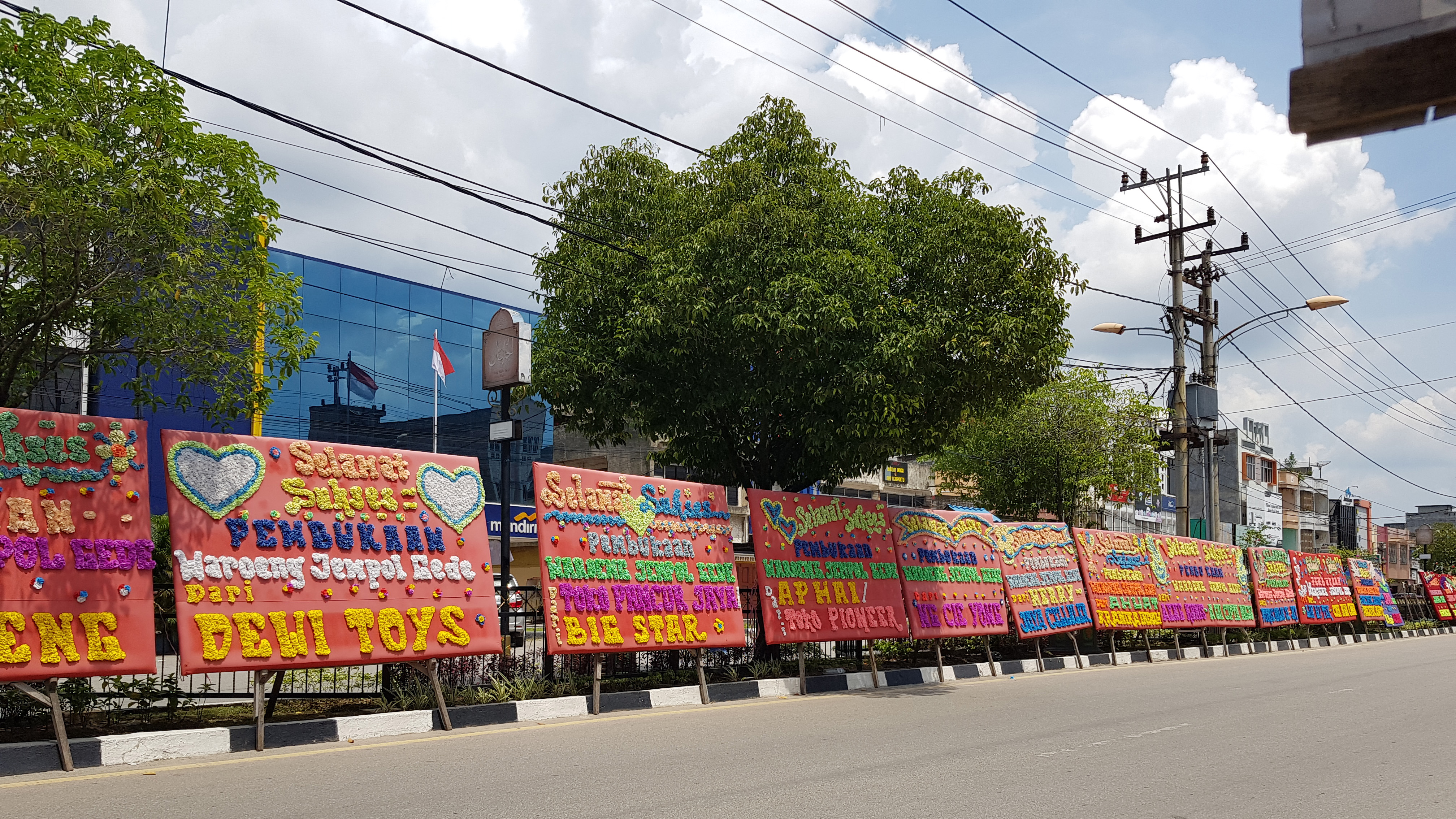 Papan Bunga placed in public space at Dumai, Indonesia